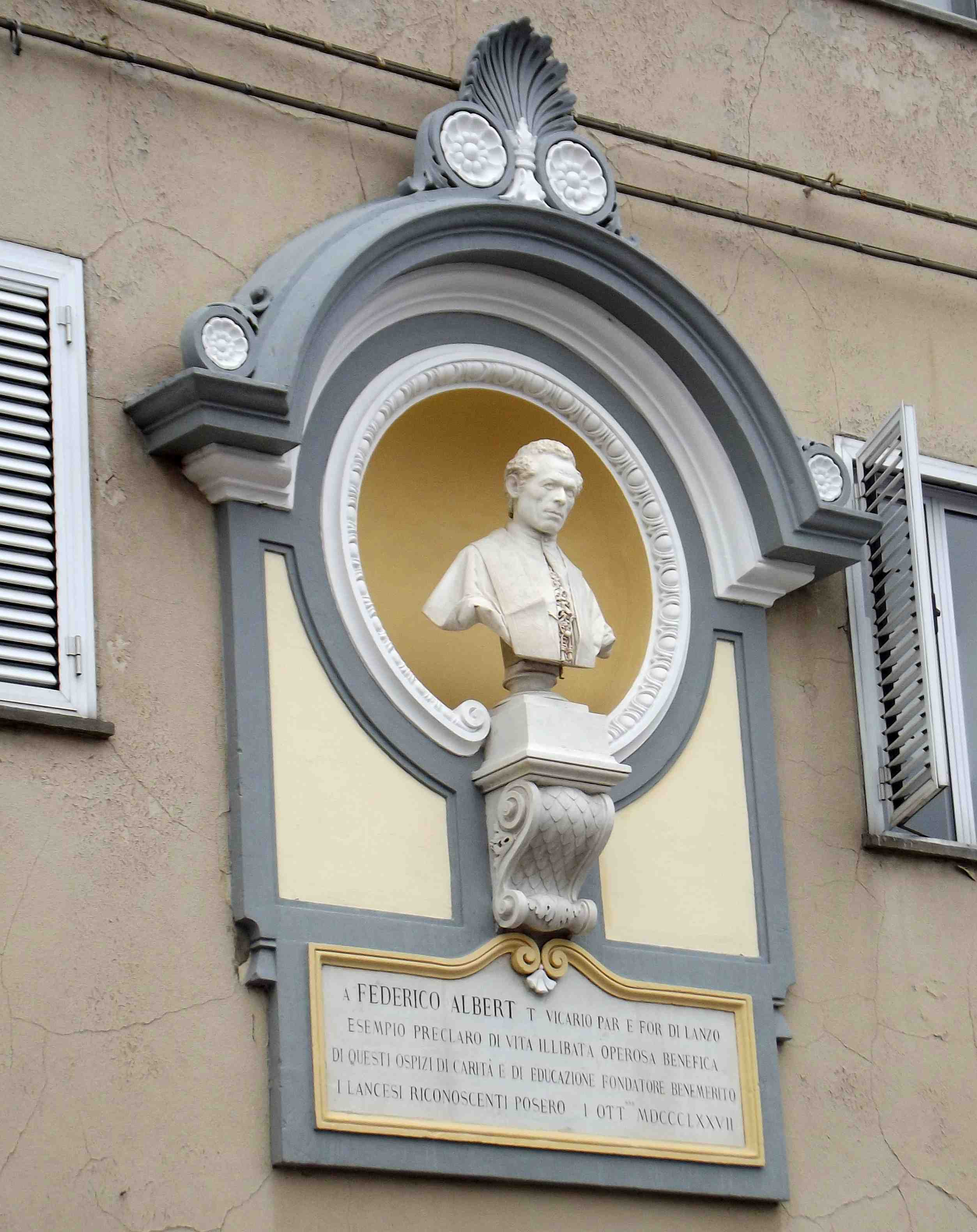 Lanzo Torinese (TO, Italy): memorial plaque devoted to Federico Albert